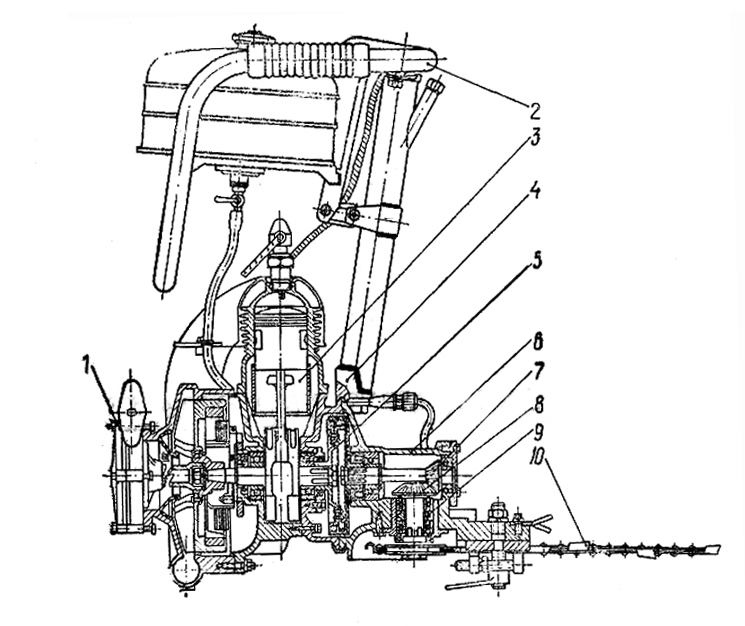 Сhainsaw "Drushba 4" from Soviet union 1955